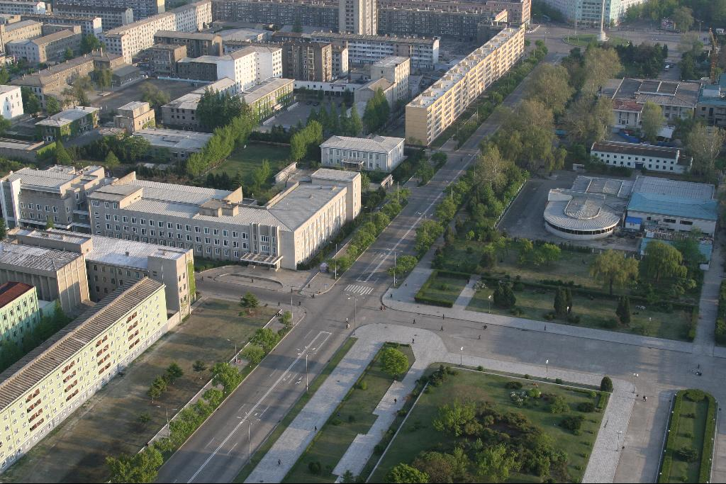 Pyongyang from the top of the Juche tower. Traffic's a killer!